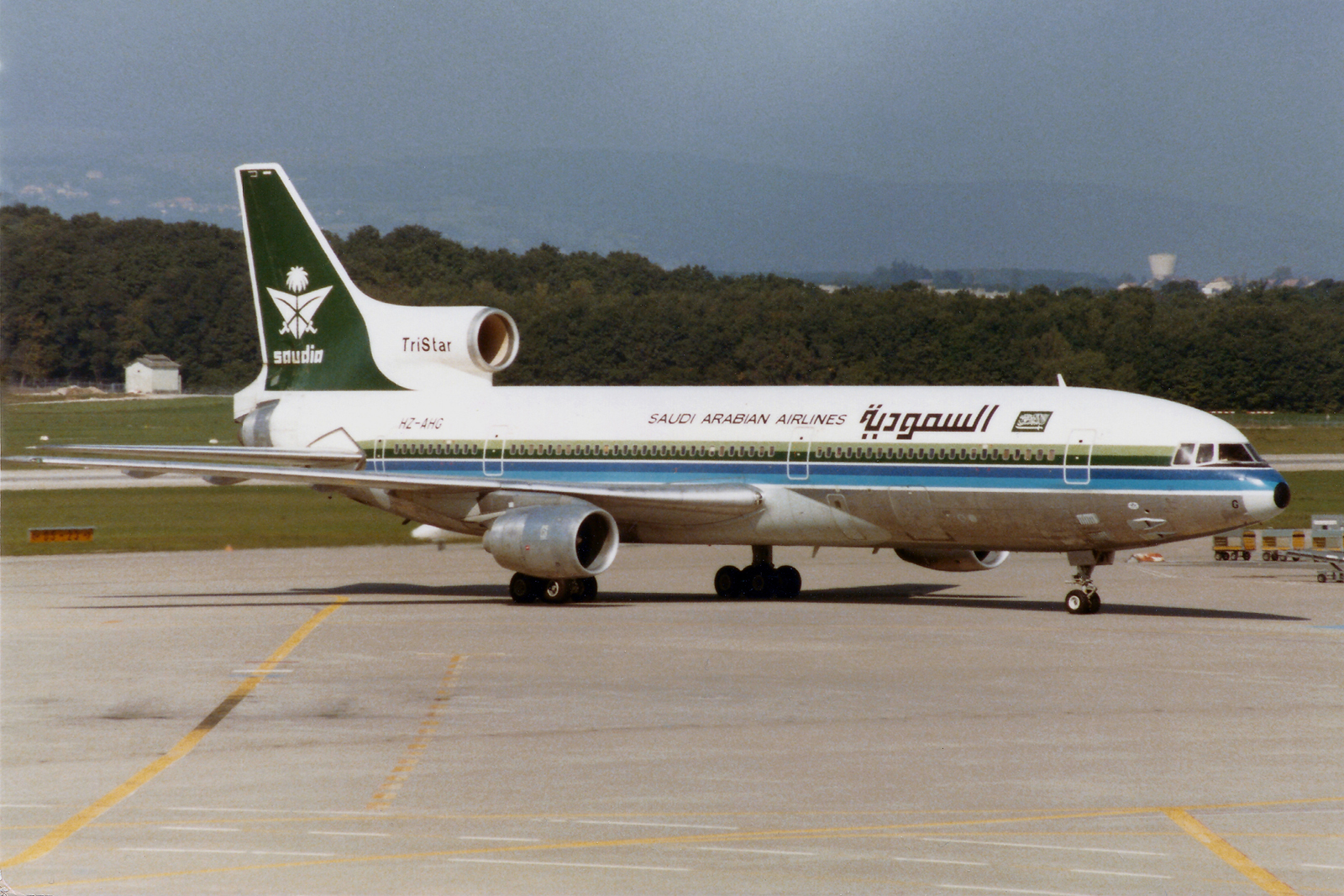 Geneva - International (Cointrin) (GVA / LSGG) Switzerland 10.1982